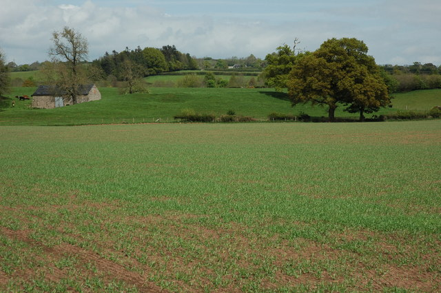 Site of Castle Arnold This natural rising ground in the Usk valley near Llangattock-juxta-Usk is the site of Castle Arnold, or Castle Arnault. The castle is thought to have been destroyed in 1177 and is believed to have been the base for the Kings of Over Gwent.